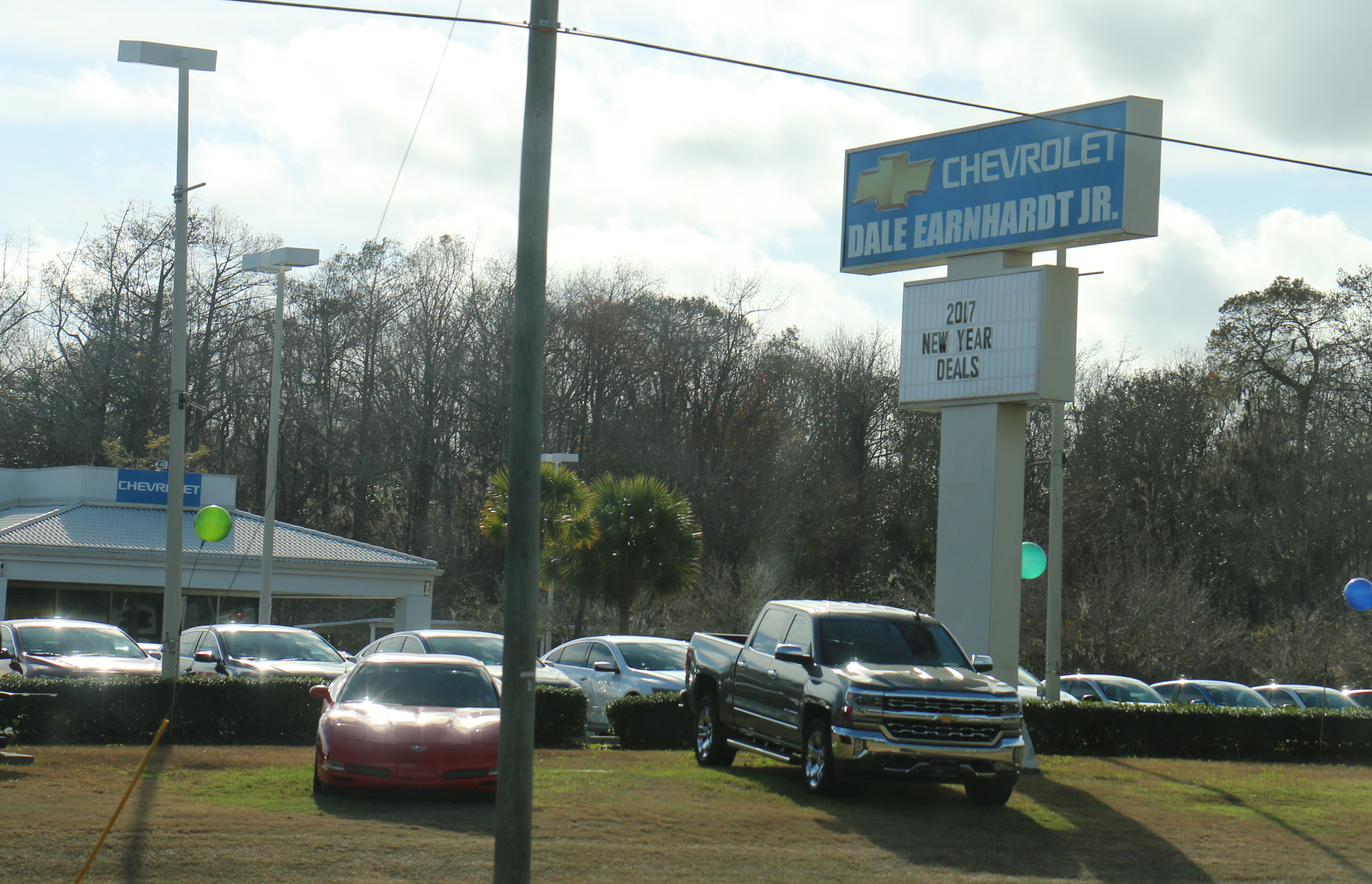 Dale Earnhardt, Jr. Chevrolet dealership in Tallahassee, Florida along U.S. Route 90.